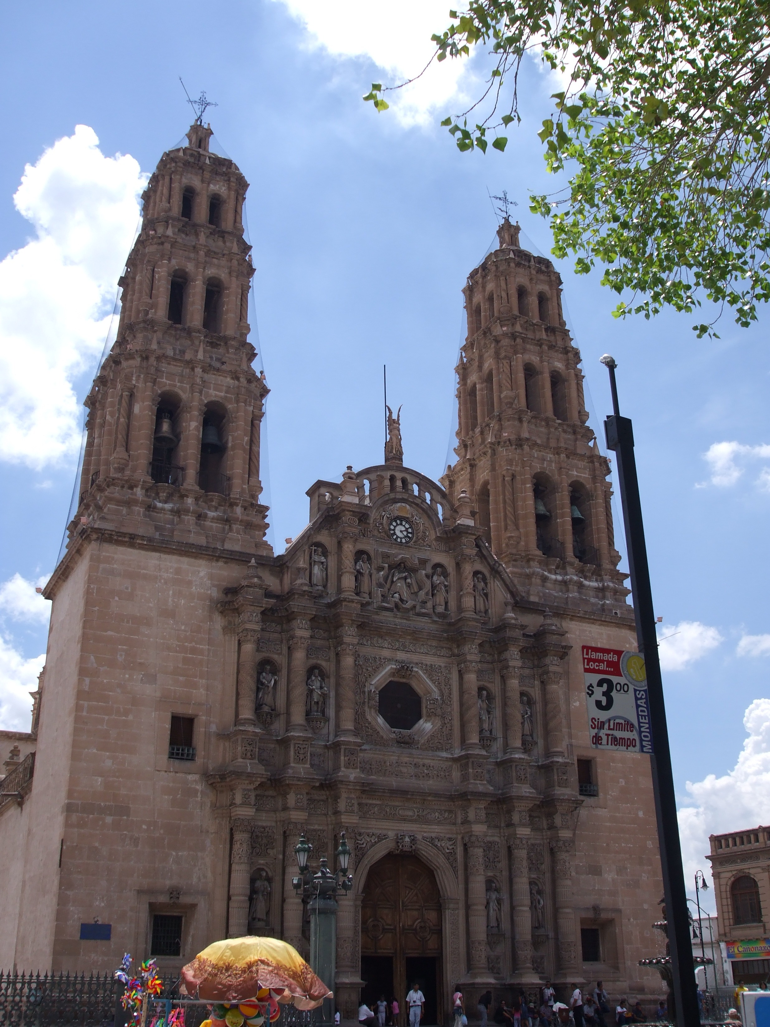 Facade of the Metropolitan Cathedral of Chihuahua, Mexico. Taken by me in 2007.